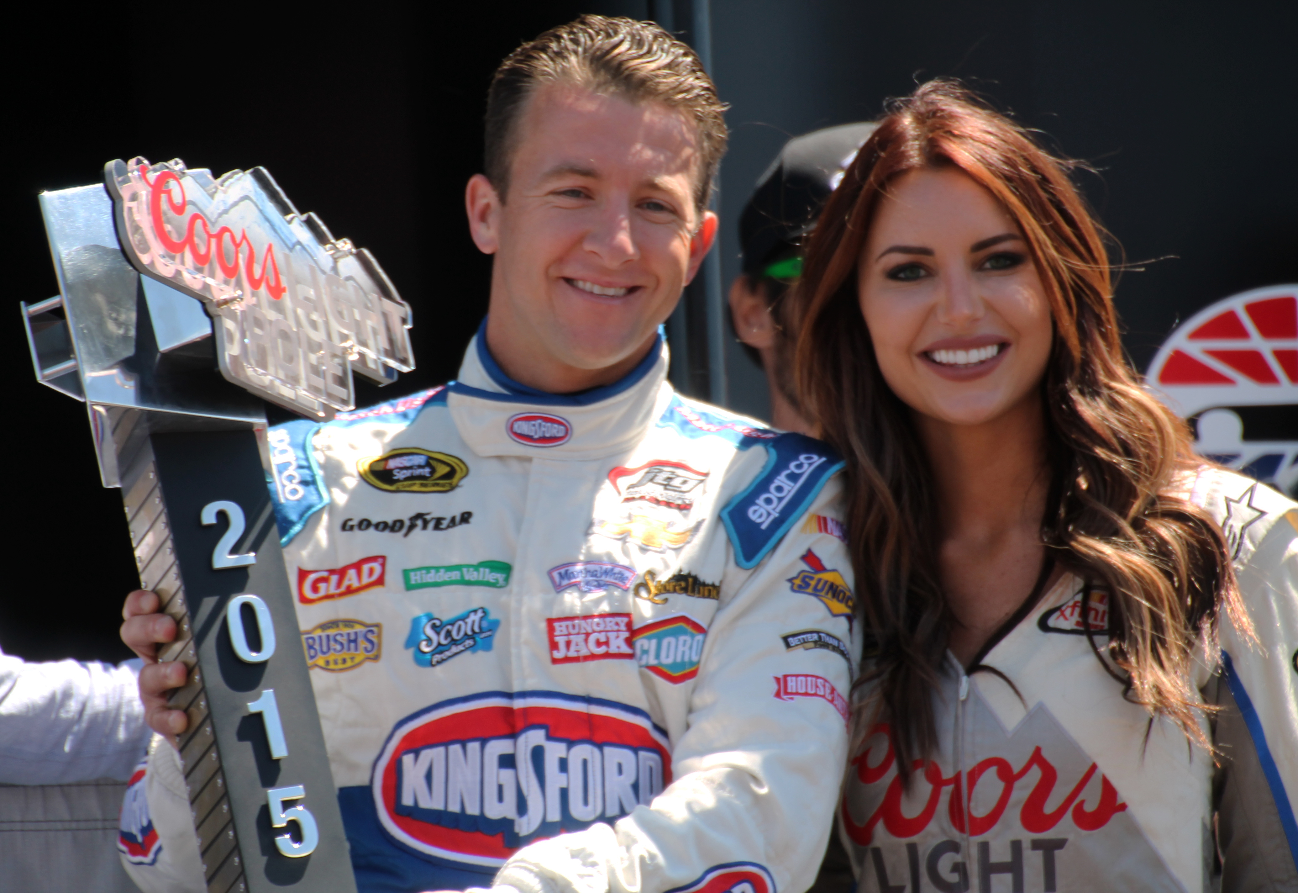 AJ Allmendinger with Miss Coors Light, Amanda Mertz, at driver introductions during the 2015 Toyota/Save Mart 350